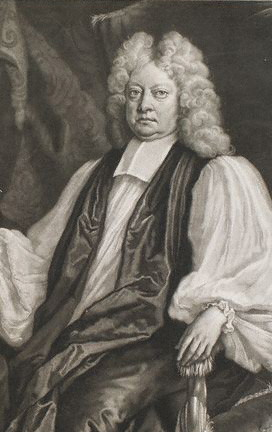 Thomas Sprat; Thomas Sprat